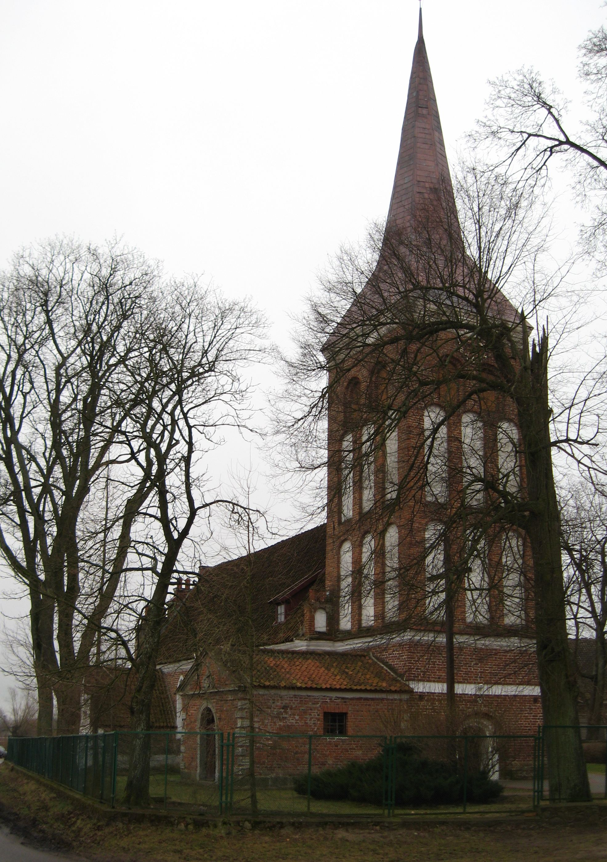 The village Drogosze (Groß Wolfsdorf) in Poland - OpenStreetMap (Info)